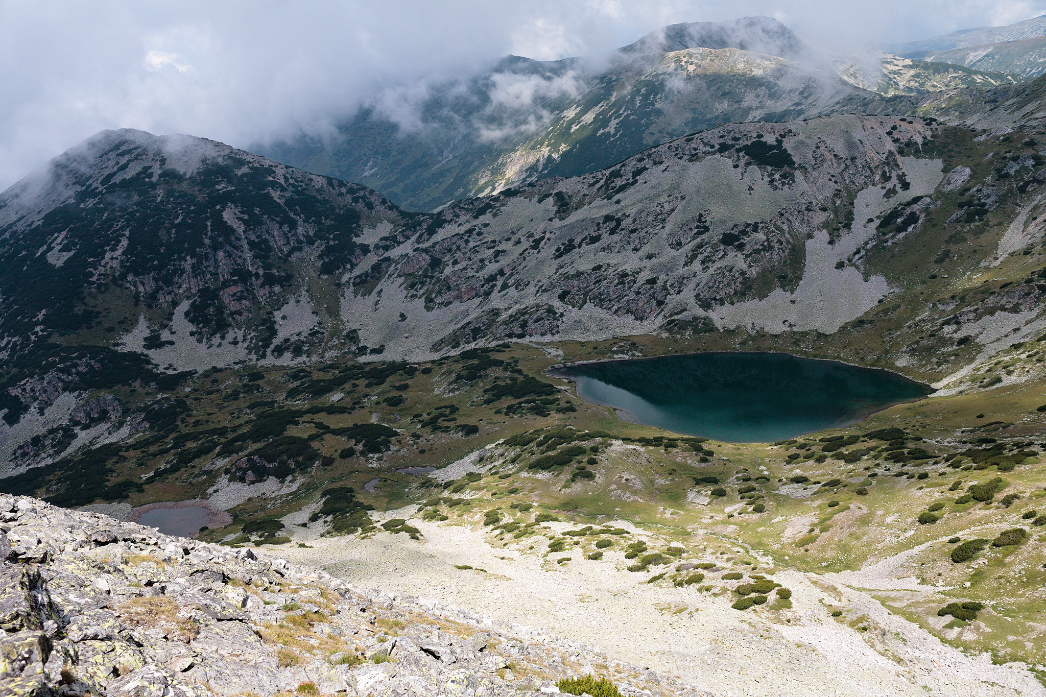 Sinyoto ezero lake in Rila mountain, Bulgaria